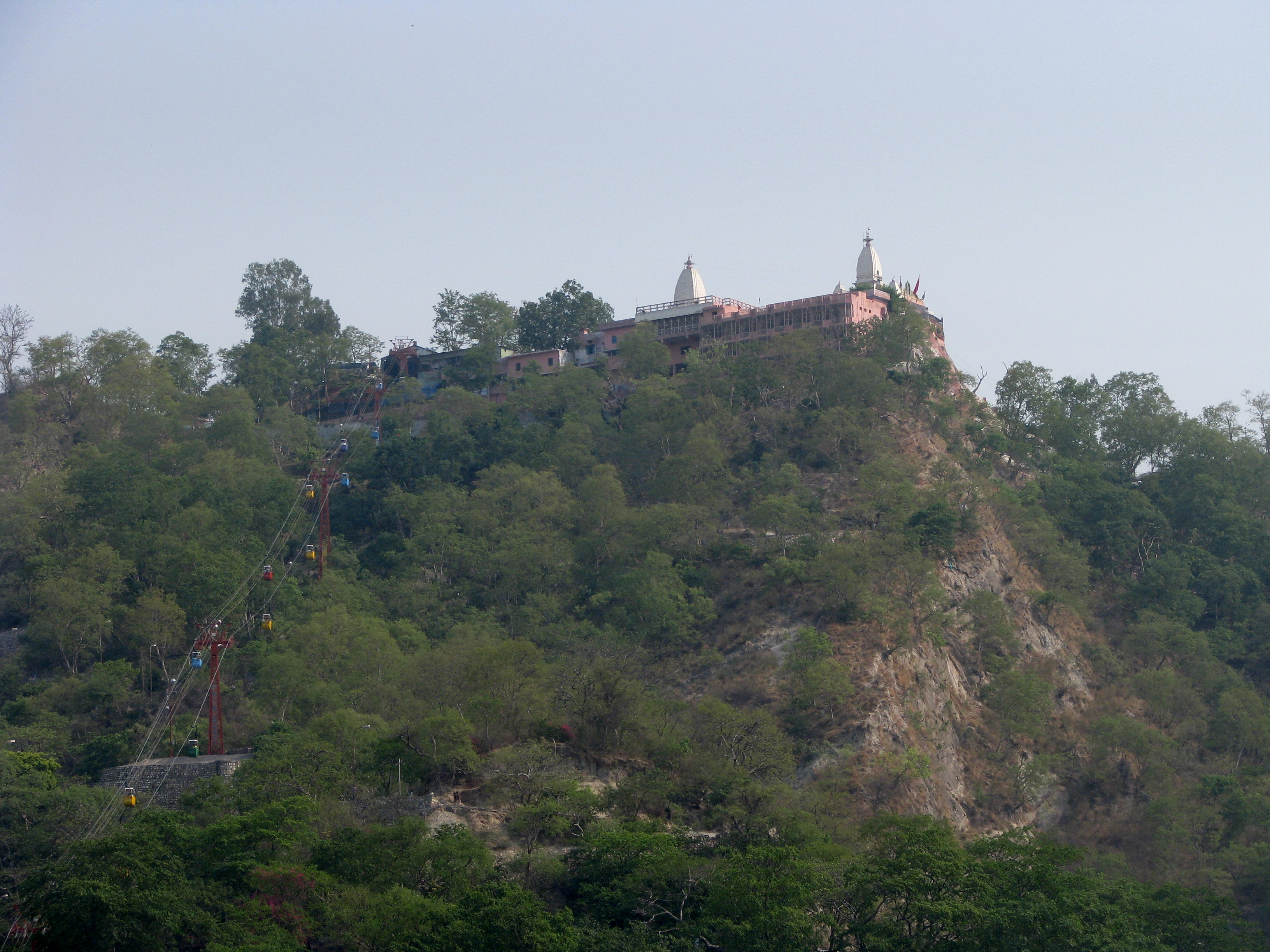 Mansa Devi Temple, Haridwar. Also seen is the rope way leading to the temple, atop Bilwa Parvat.